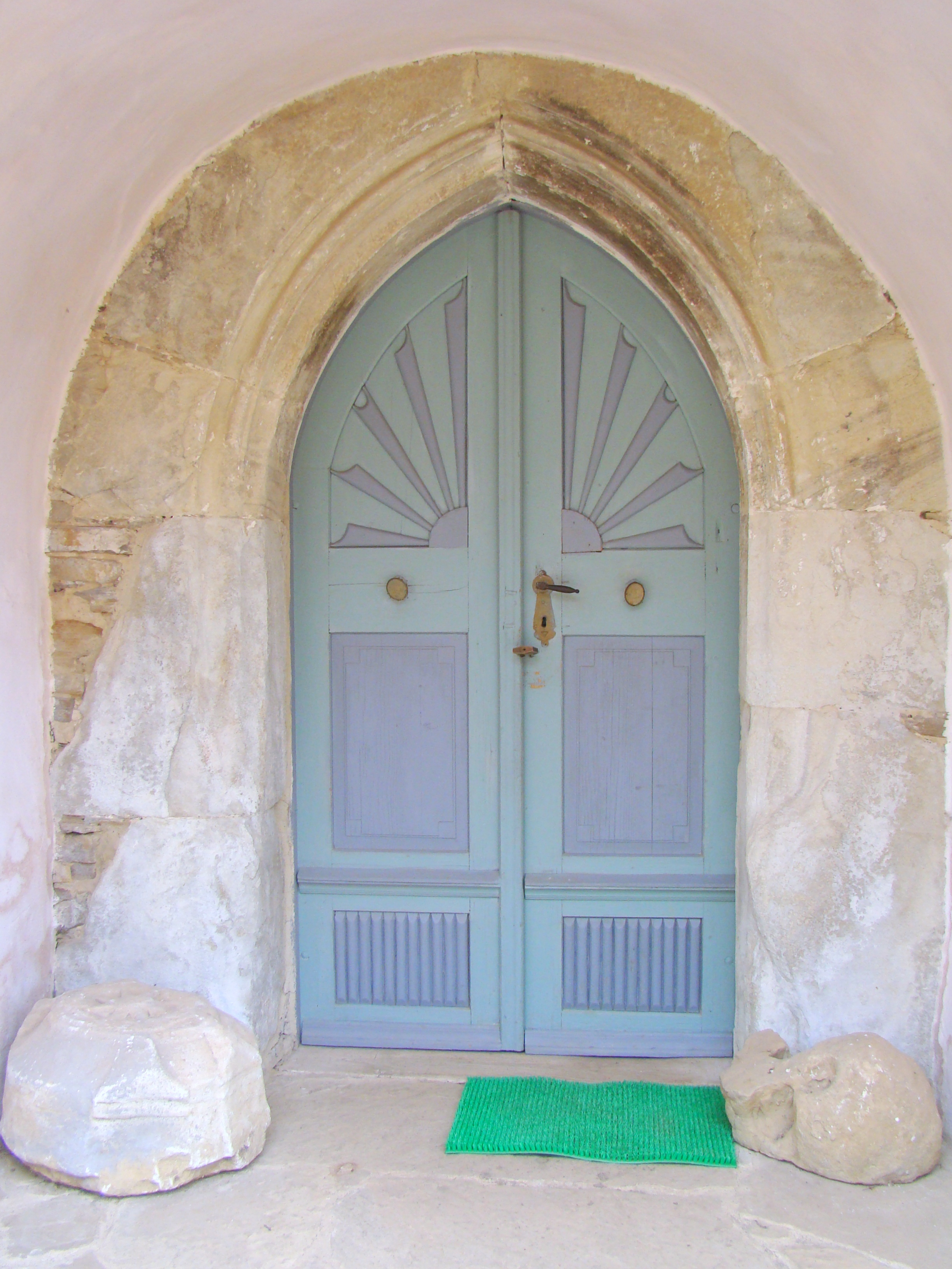 Fortified church in Meșendorf, Brașov County, Romania